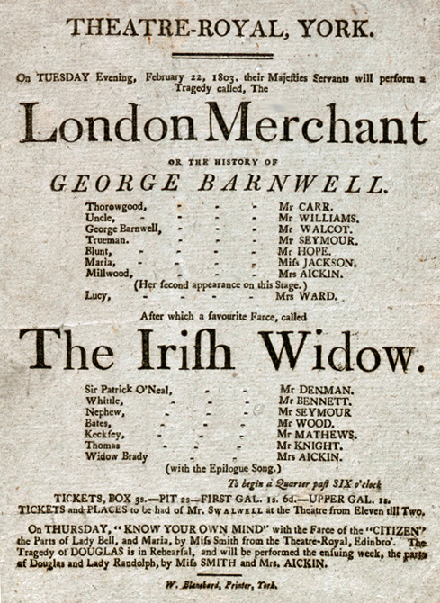 Playbill for 1803 production of The London Merchant, scanned from original.